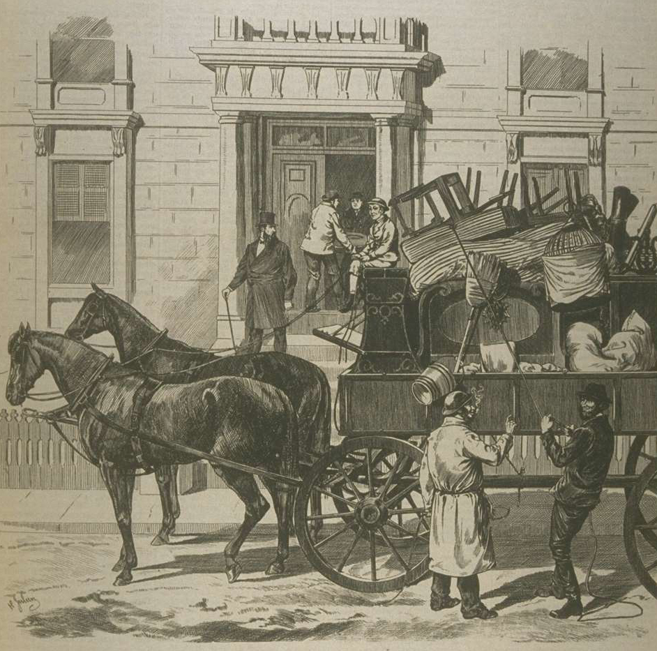 Moving scene, Montreal, 1st May, frontpage of L'Opinion publique, Montreal, vol. VII, no 20, 1876, 18 mai, p. 1.